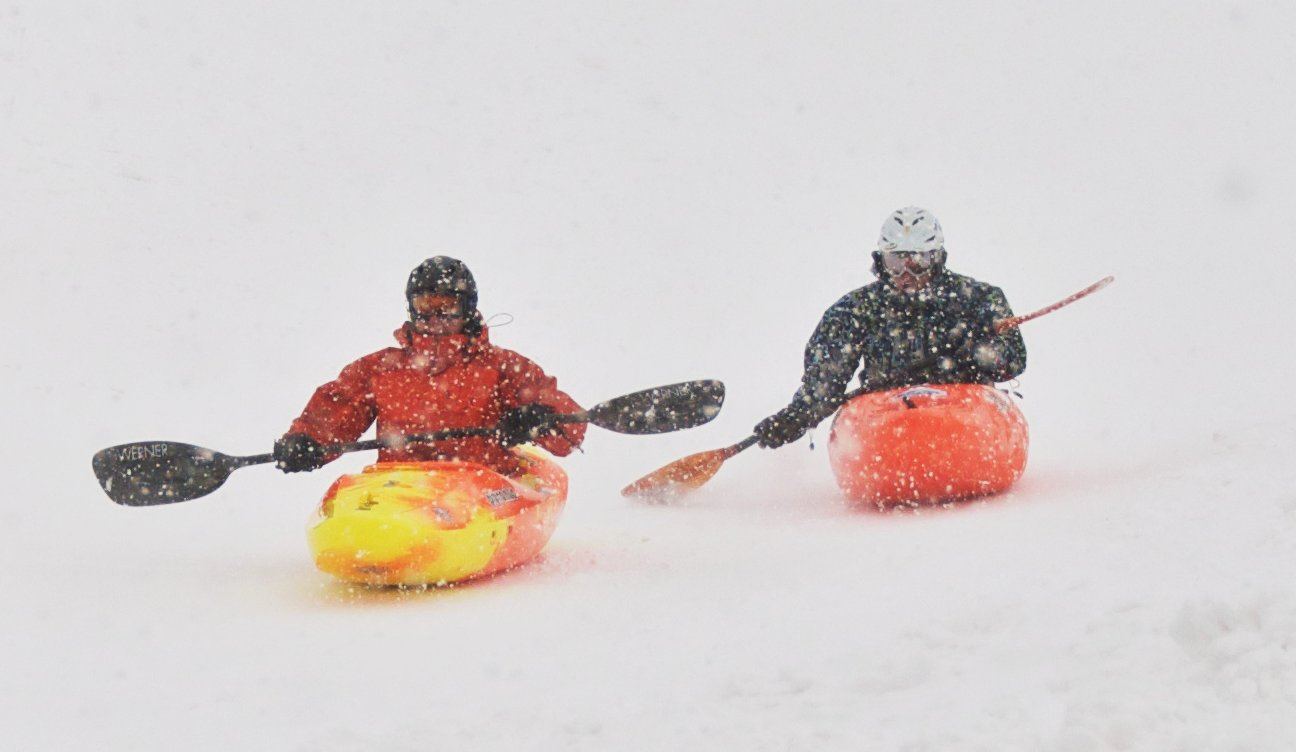 Kayaking in snow on Monarch Mountain